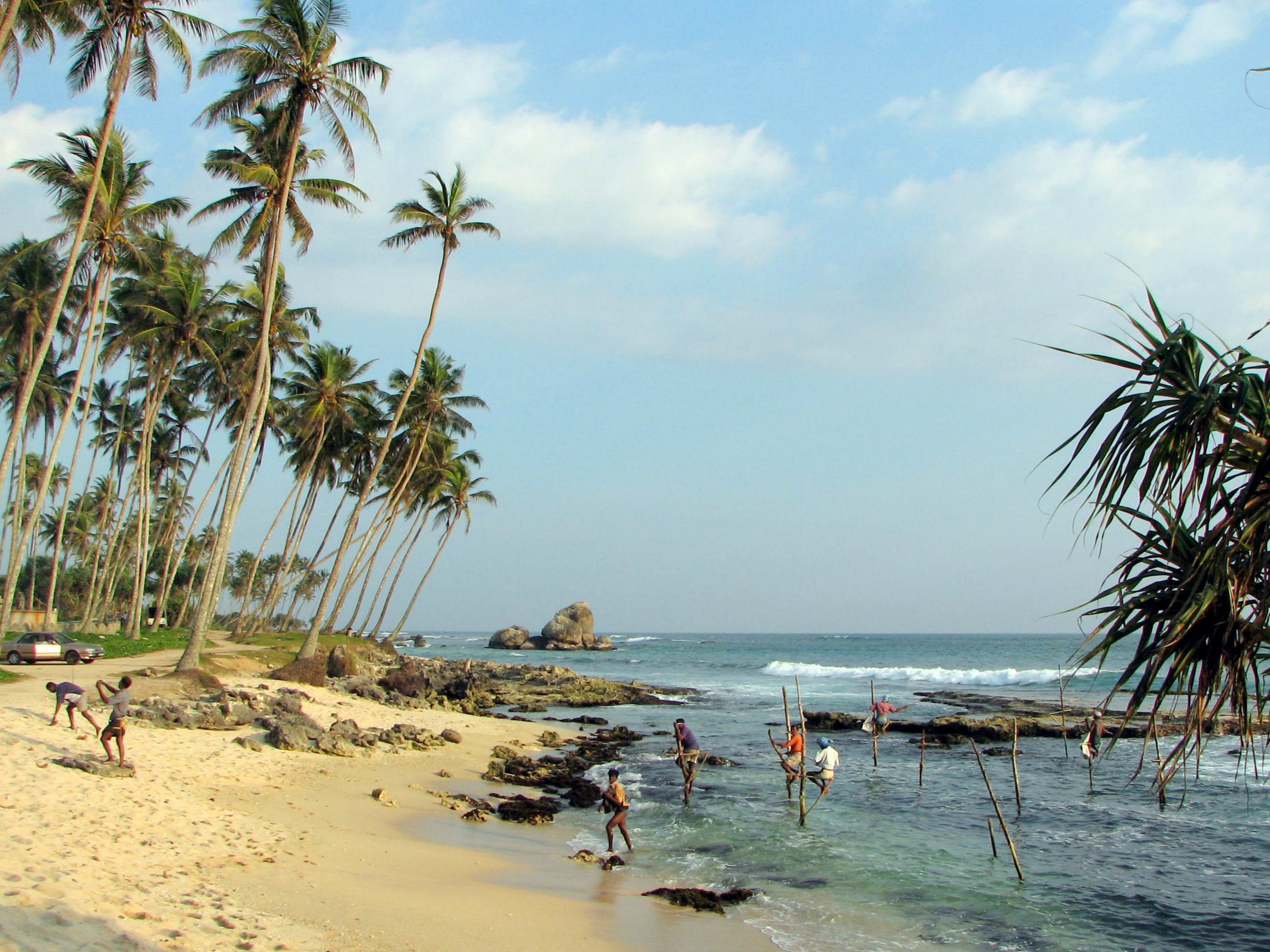 Stilts fishermen near Unawatuna, Sri Lanka